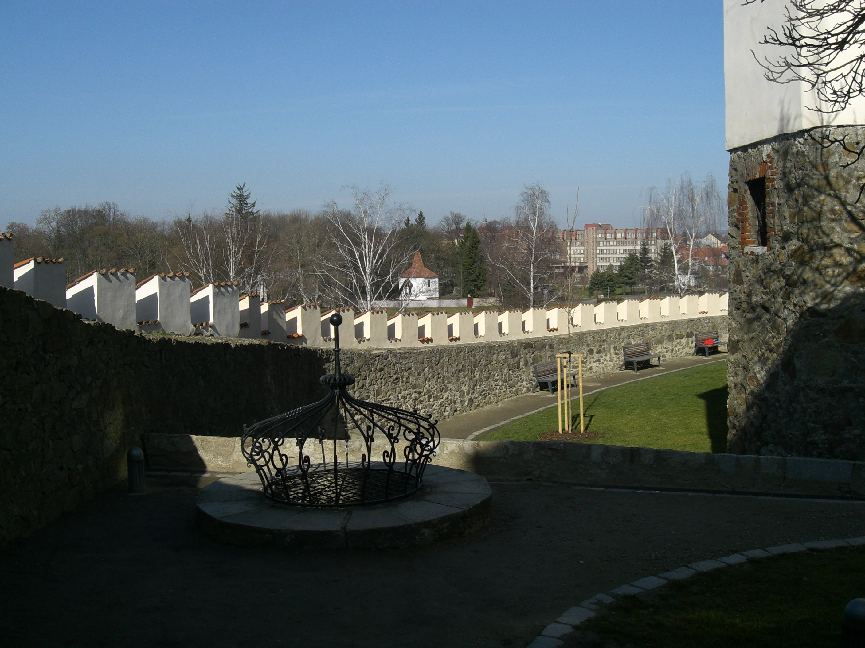 Part of Ringwall in Písek.